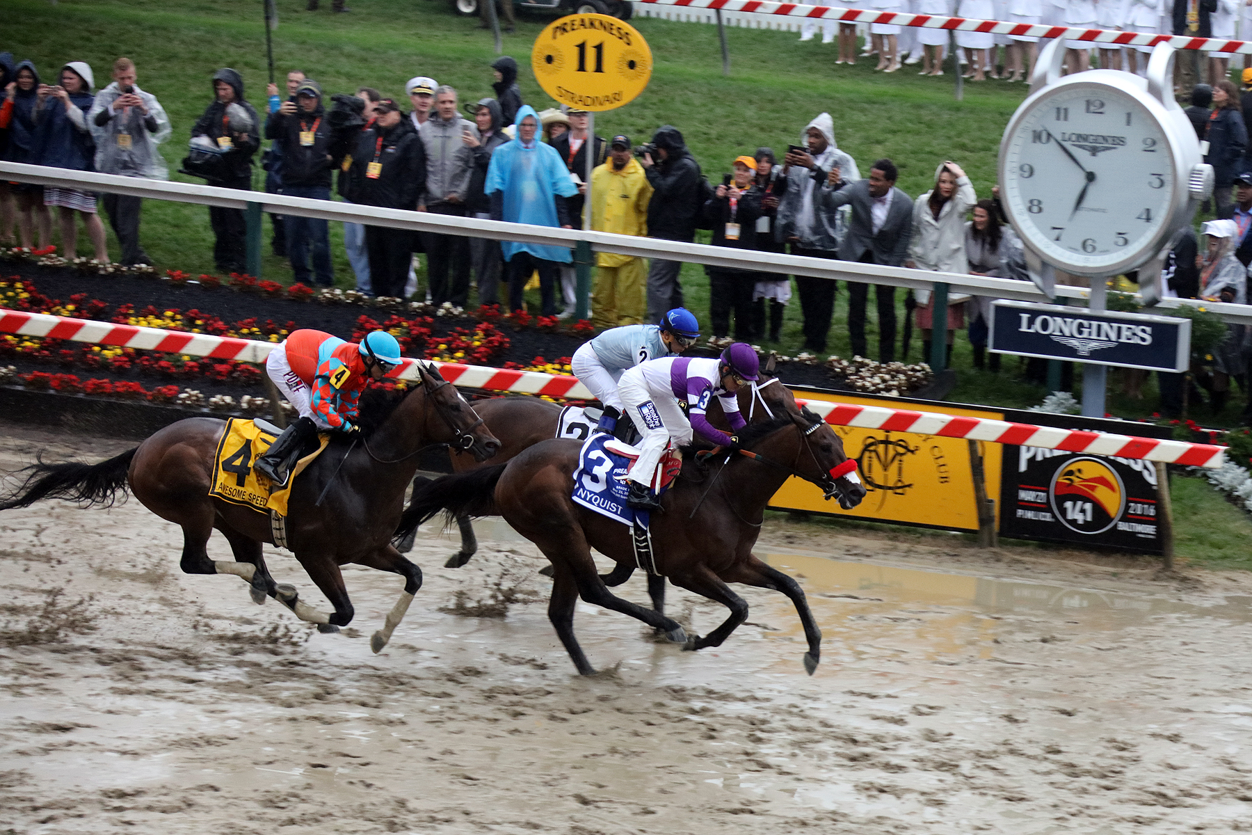 Early in the race (pictured) Nyquist led, in a speed duel that tired him and he eventually finished third Governor Hogan Attends 2016 Preakness Stakes by Steve Kwak at Baltimore, Maryland 2016 Preakness Stakes